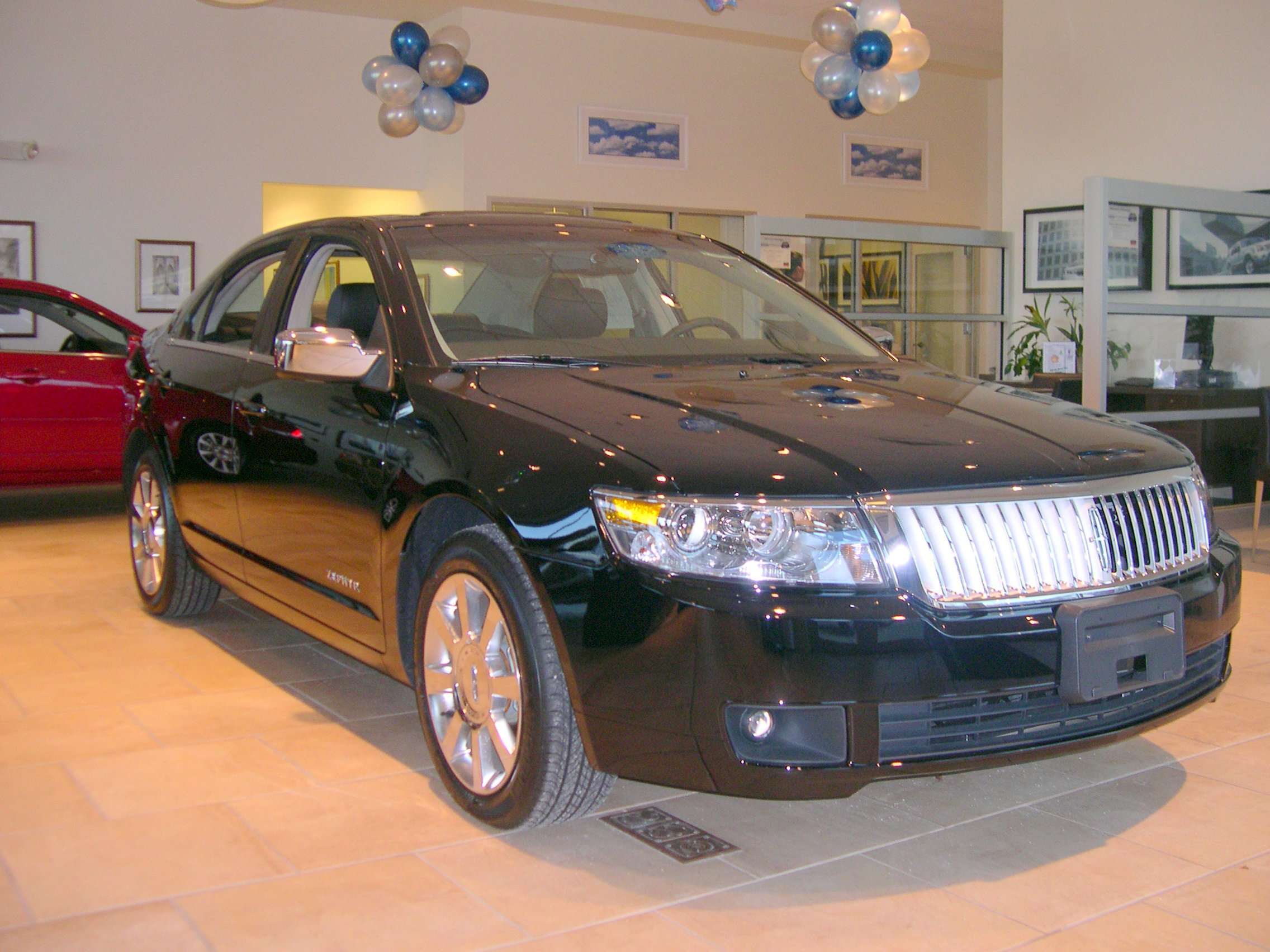 2006 Lincoln Zephyr